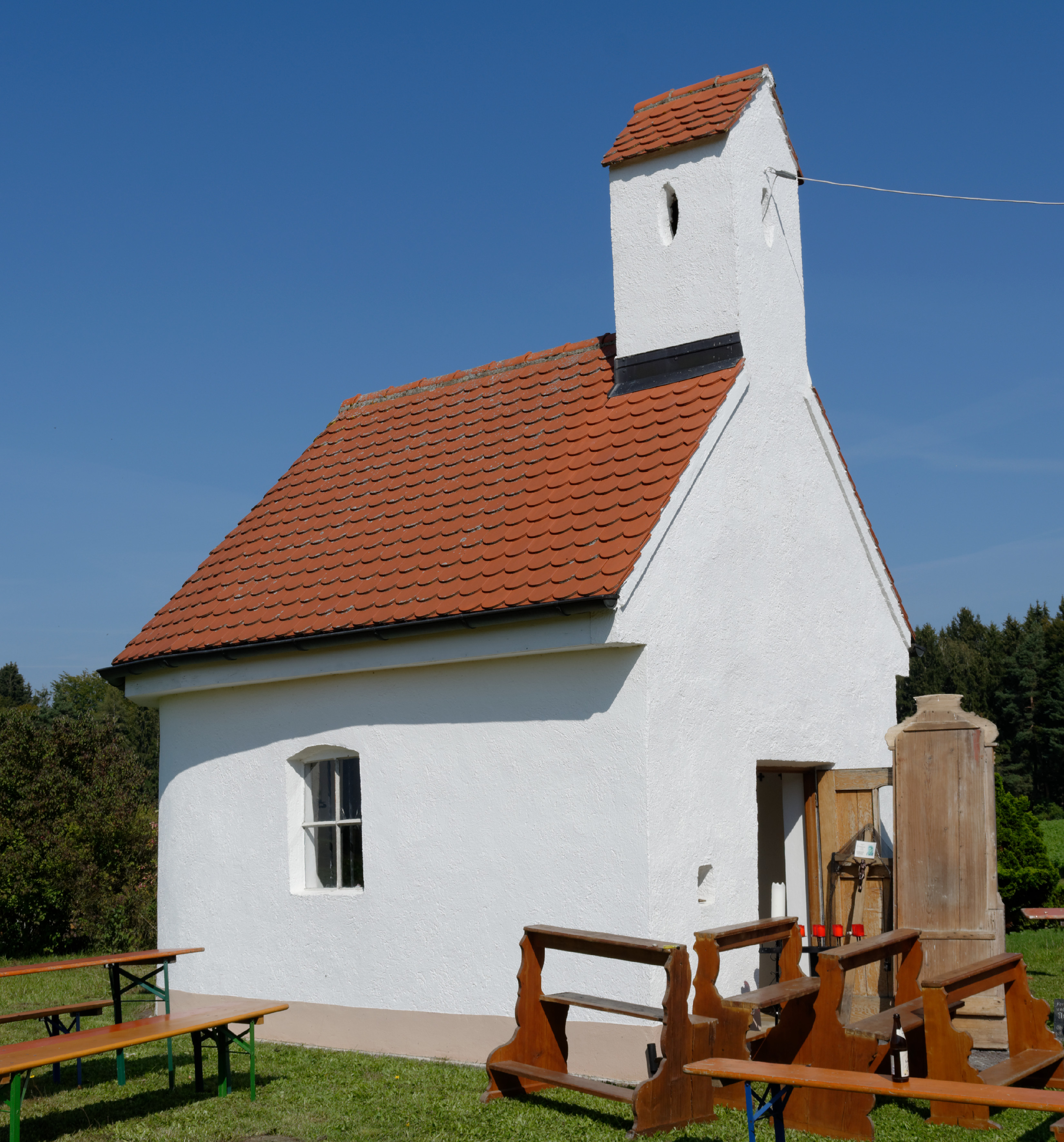 This is a photograph of an architectural monument.